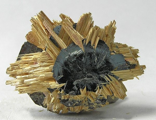 Rutile, Hematite Locality: Novo Horizonte, Bahia, Northeast Region, Brazil (Locality at ) Size: 5.9 x 4.1 x 1.3 cm. From the recent finds, with golden acicular crystals of rutile radiating from a center of platy, lustrous hematite. This unusual one is multi-layered, so it has a 3-dimensionality that is uncommon for these.